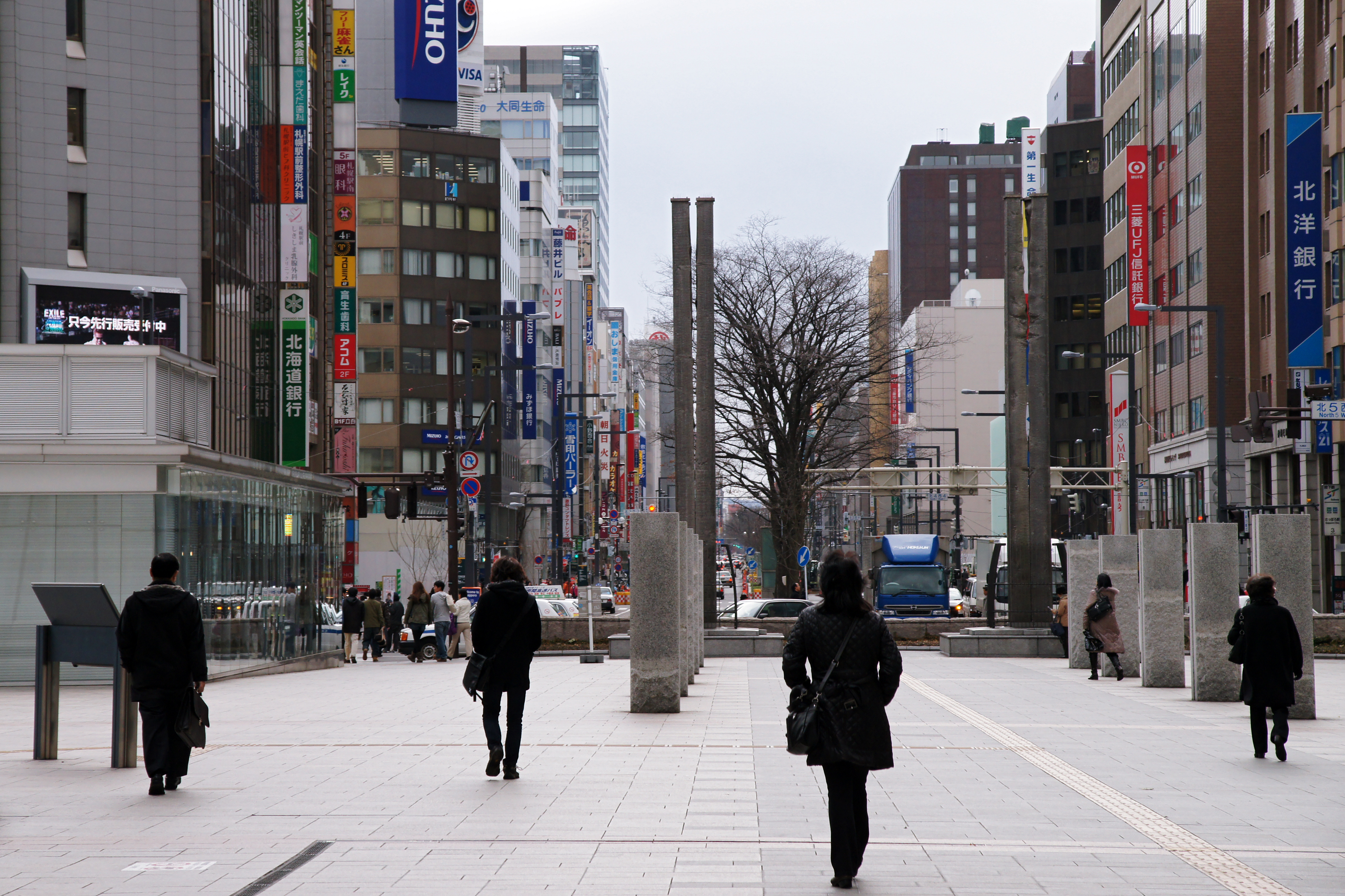 In front of Sapporo Station, Sapporo, Hokkaido prefecture, Japan